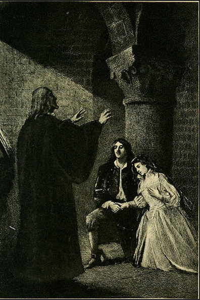 Title: Hans of Iceland Year: 1902 (1900s) Authors: Hugo, Victor, 1802-1885 Subjects: Publisher: Boston : Dana Estes and Co. Text Appearing Before Image: Text Appearing After Image